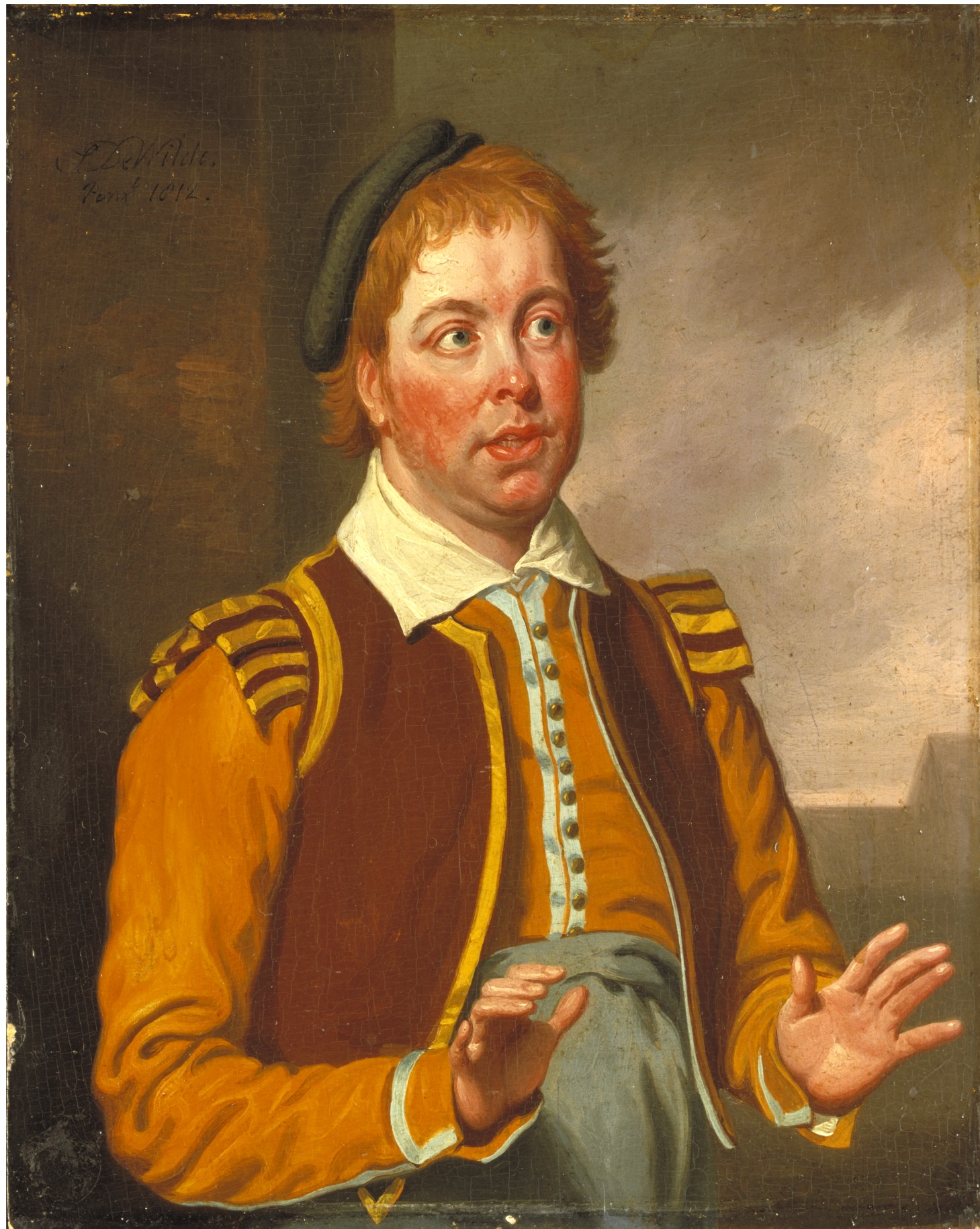 Portrait entitiled 'John Liston as Pompey in 'Measure for Measure' by William Shakespeare', Samuel De Wilde, 1812.